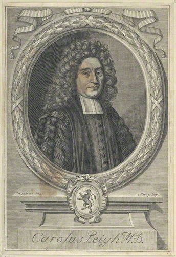 Portrait of Charles Leigh, (1662–1701?), English physician and naturalist.